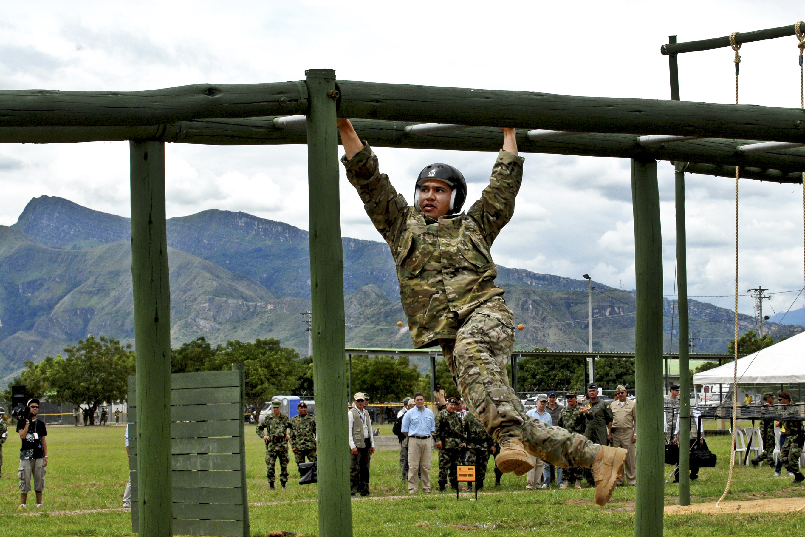 A U.S. special operations team member works his way across the monkey bars during the obstacle course portion of Fuerzas Comando 2012 at the Colombian National Training Center on Fort Tolemaida, Colombia, June 10, 2012.